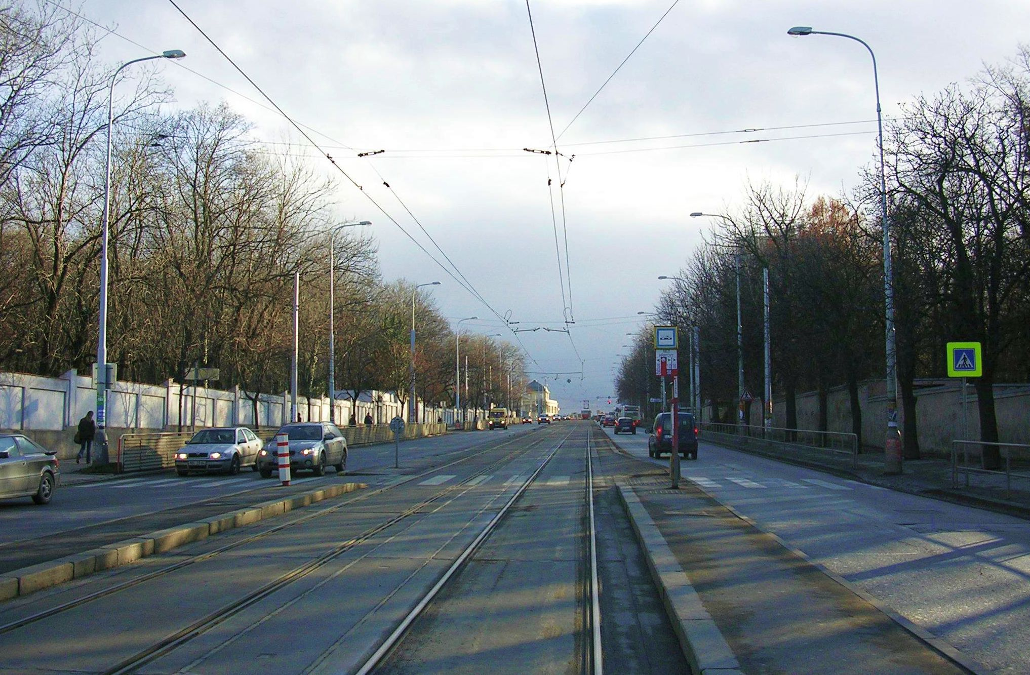 Žižkov, Prague, the Czech Republic. A tram stop in Jana Želivského Street.